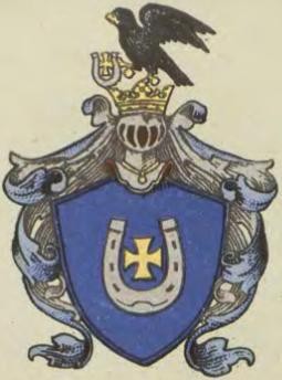 Jastrzębiec coat of arms by Zbigniew Leszczyc published in "Herby szlachty polskiej"